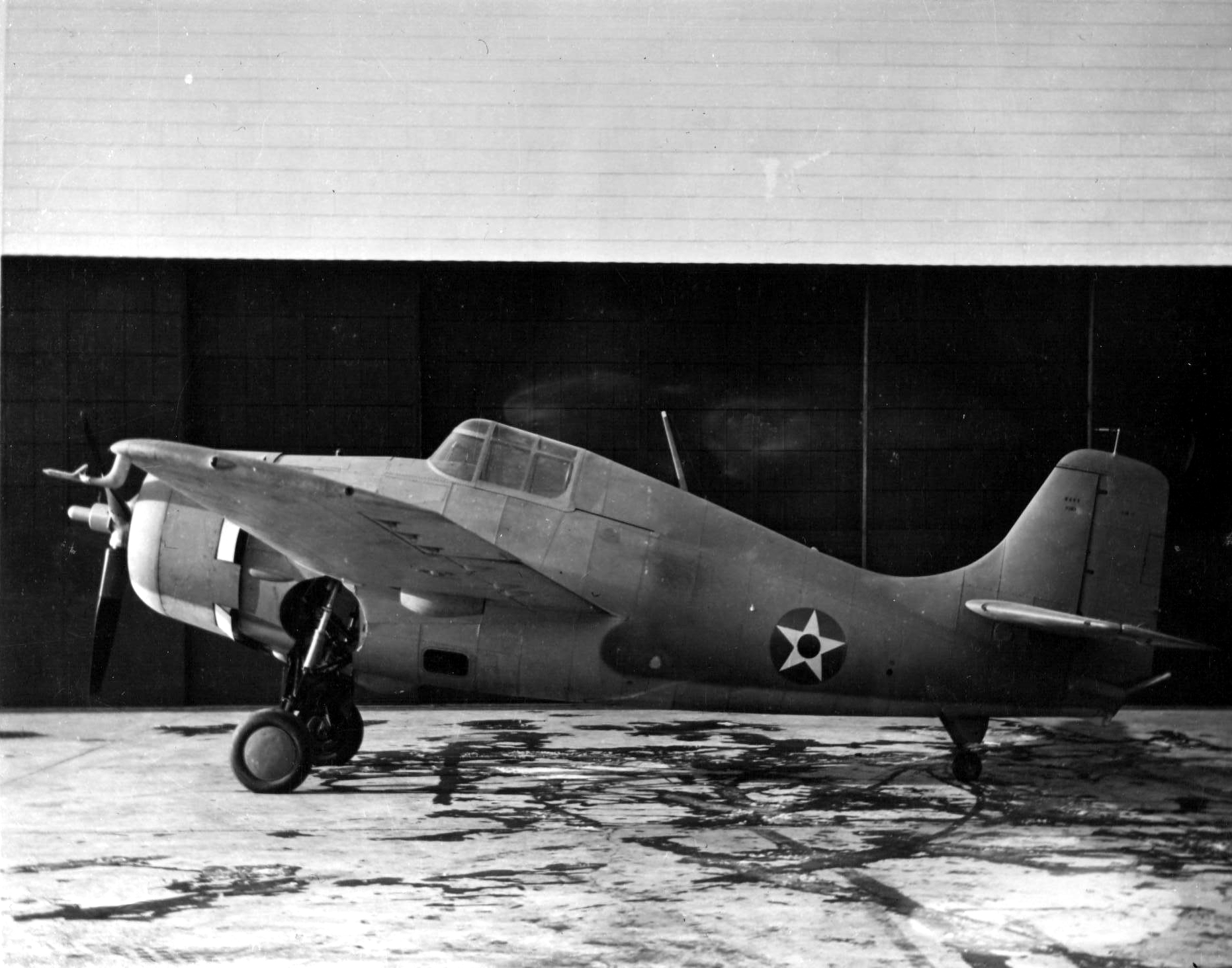 A U.S. Navy Grumman F4F-7 Wildcat photo aircraft on the ground. The F4F-7 was designed as a photo aircraft, distinguishable from other Wildcats by the rounded, one-piece windscreen and prominent fuel jettison tubes below the rudder. Of 100 ordered, only 21 were actually delivered since the requirement was small. However, several flew combat missions at Guadalcanal.